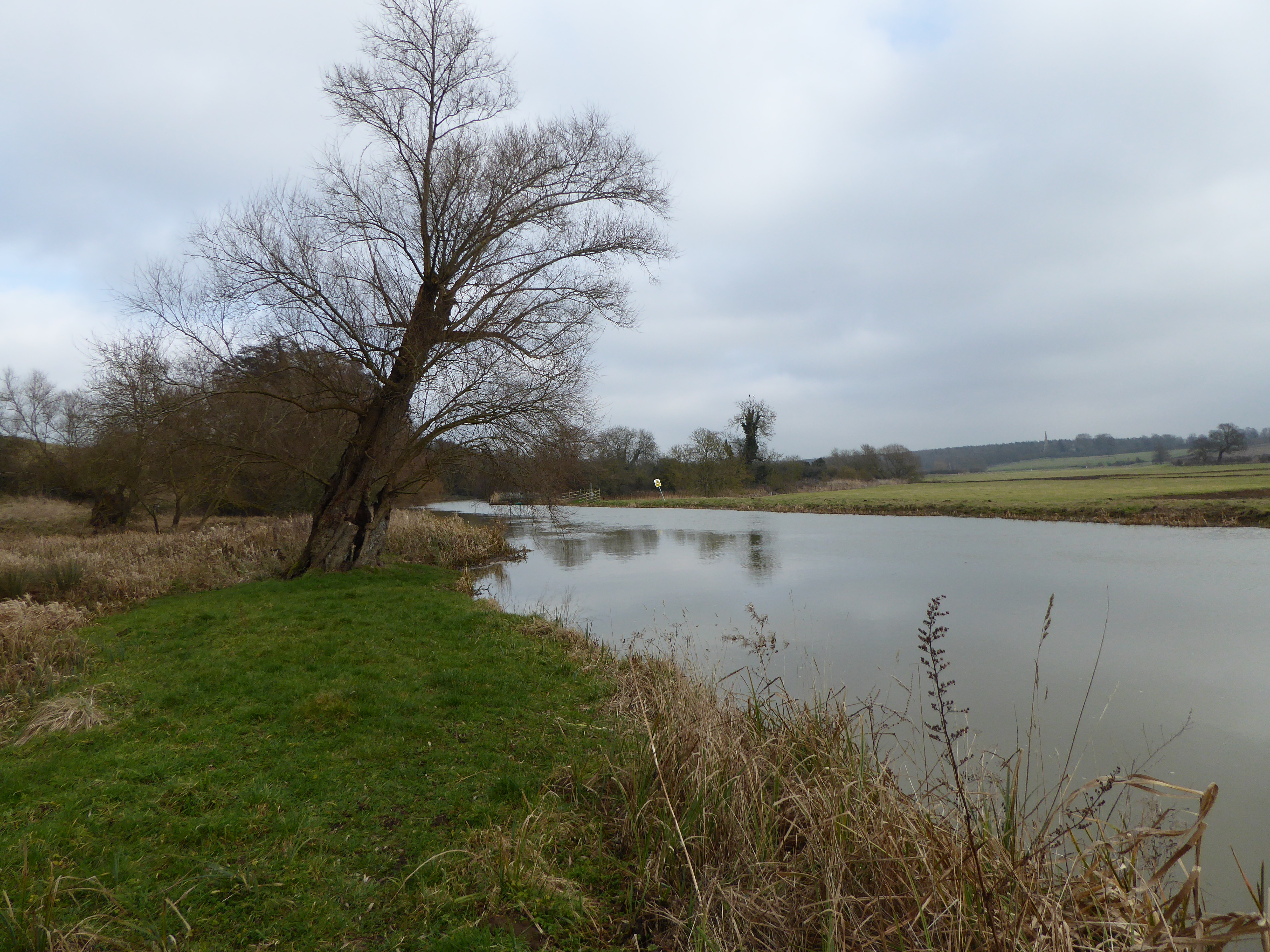 The River Nene in Wadenhoe Marsh and Achurch Meadow, a biological Site of Special Scientific Interest south of Wadenhoe in Northamptonshire